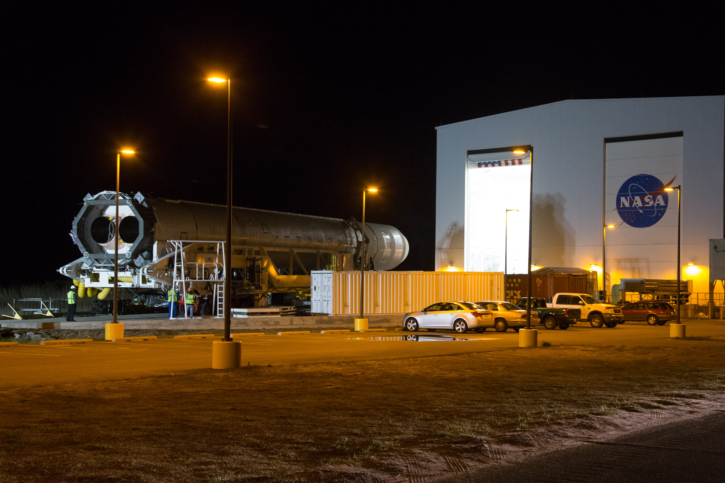 WALLOPS ISLAND, Va.—Orbital Sciences Corp. completed roll-out of the first fully-integrated Antares rocket to the Mid-Atlantic Regional Spaceport Pad-0A at NASA's Wallops Flight Facility on Saturday, April 6. Orbital has confirmed an April 17 target launch date for the rocket test flight with a planned liftoff of 5 p.m. EDT. Orbital is testing the Antares rocket under NASA's Commercial Orbital Transportation Services (COTS) program. NASA initiatives like COTS are helping develop a robust U.S. commercial space transportation industry with the goal of achieving safe, reliable and cost-effective transportation to and from the space station and low-Earth orbit.